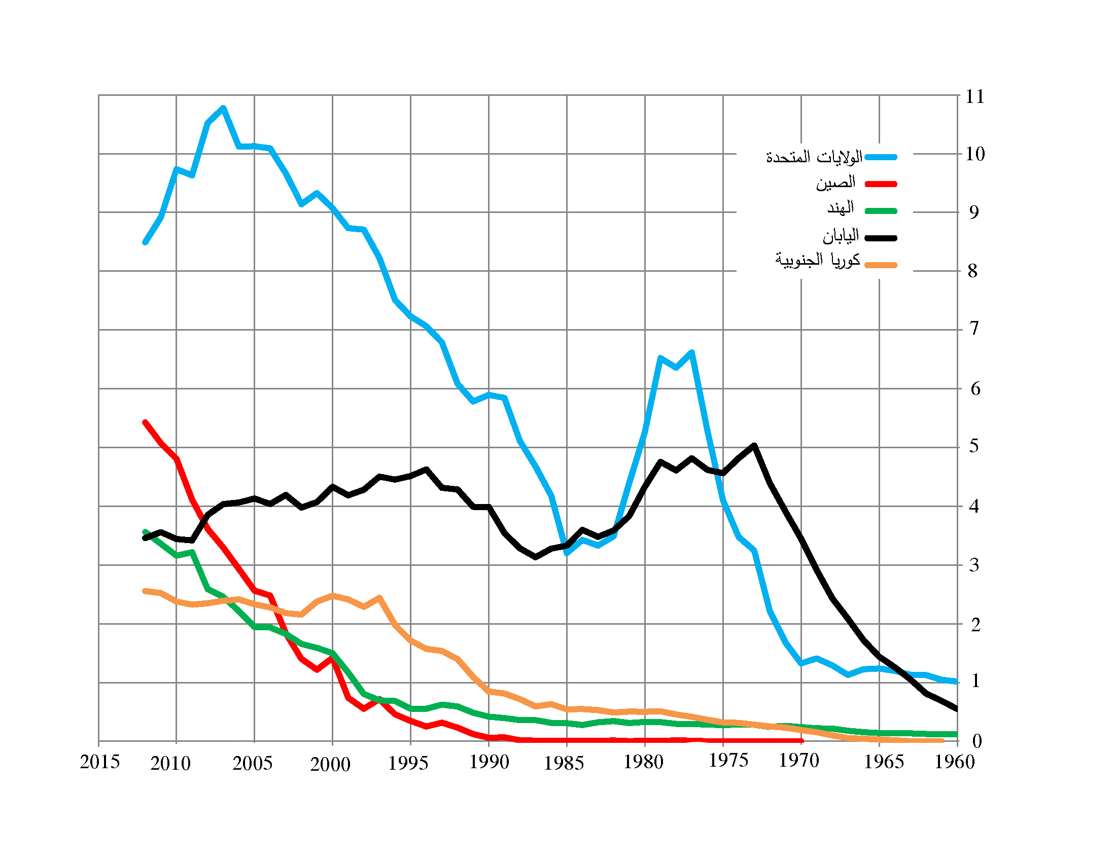 Trends in the top five crude oil-importing countries, 1960-2012